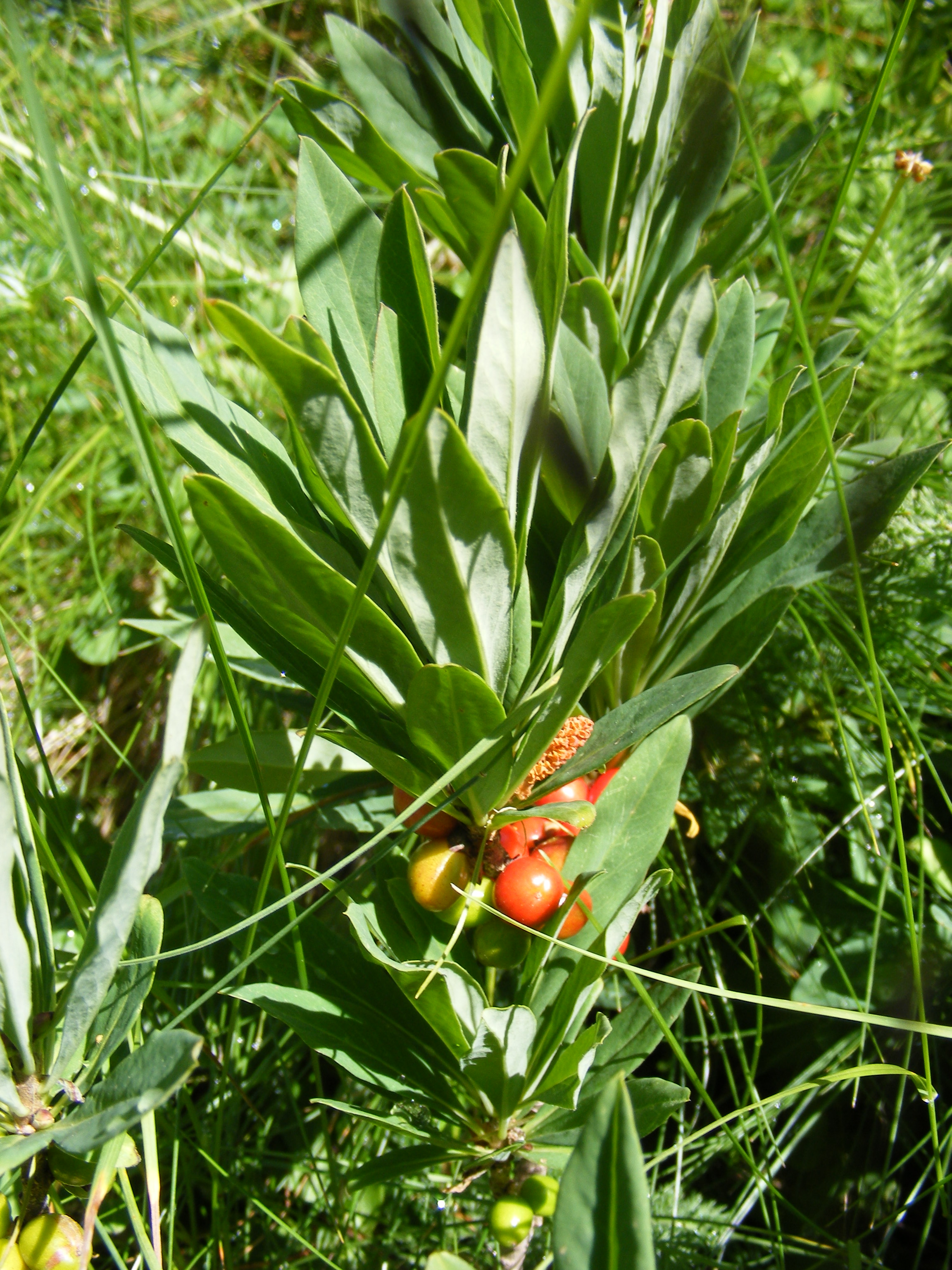 This photo shows Daphane mezereum fruits